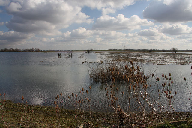 The Ouse Washes Viewed from the bank of the Old Bedford River. A recent dry period has reduced the flood level on the Ouse Washes, and some vegetation is now showing above the water.